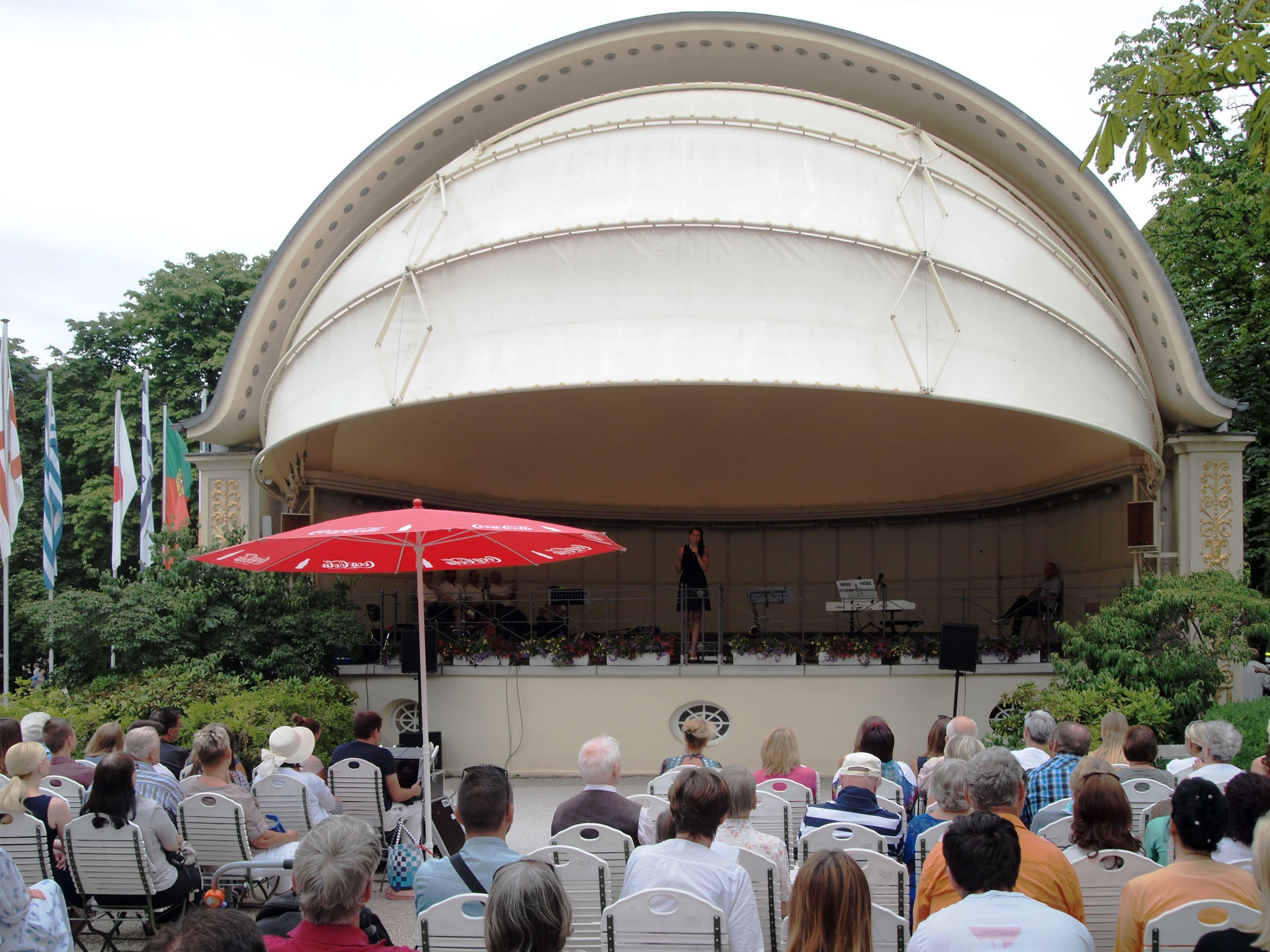 Church service in the spa of Baden-Baden. The bandshell has a spherical awning.